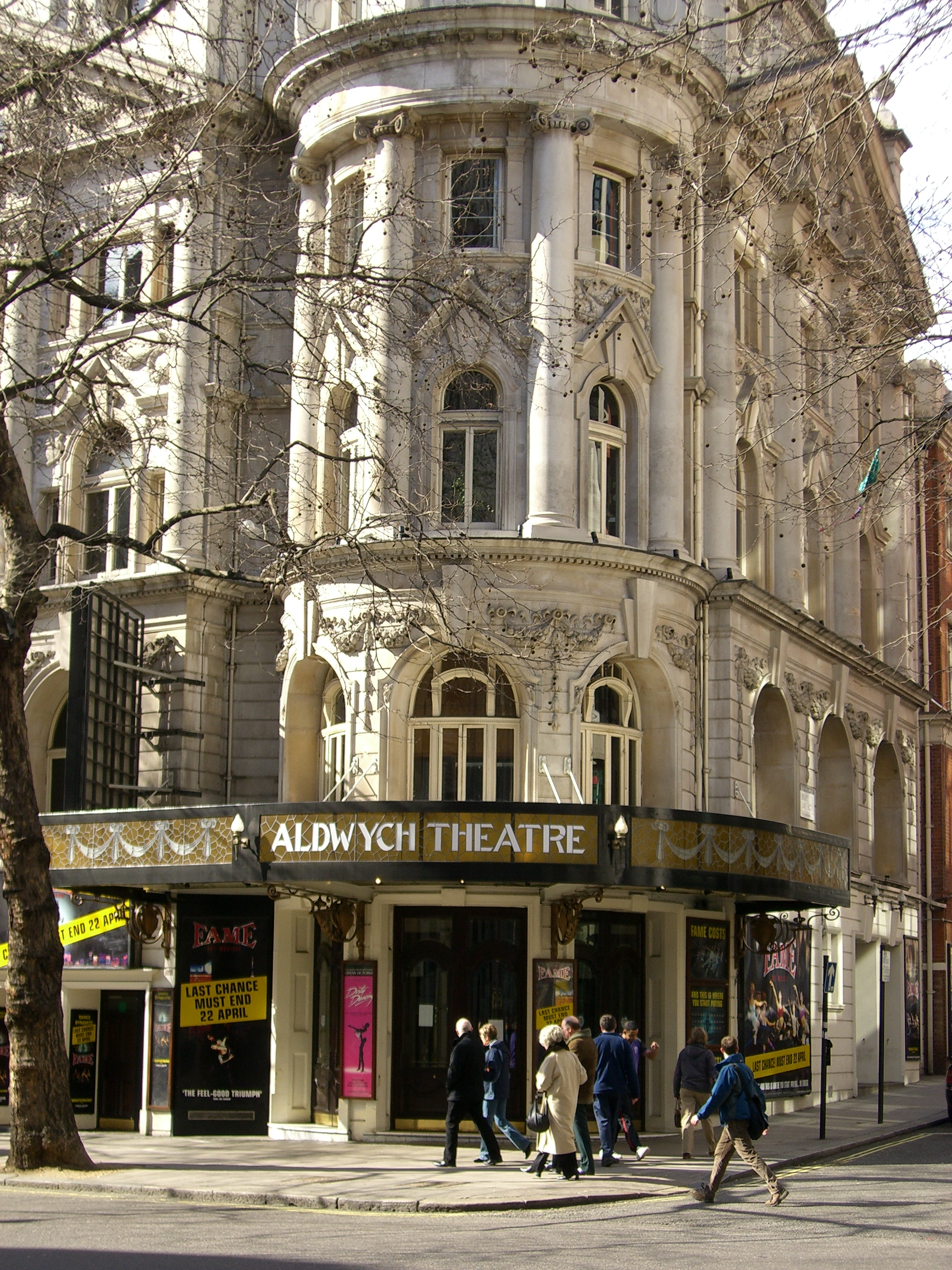 Aldwych Theatre, 49 Aldwych, London WC2B 4DF Photo taken by User:Edward on 19 March 2006 with a Casio EX-S600.